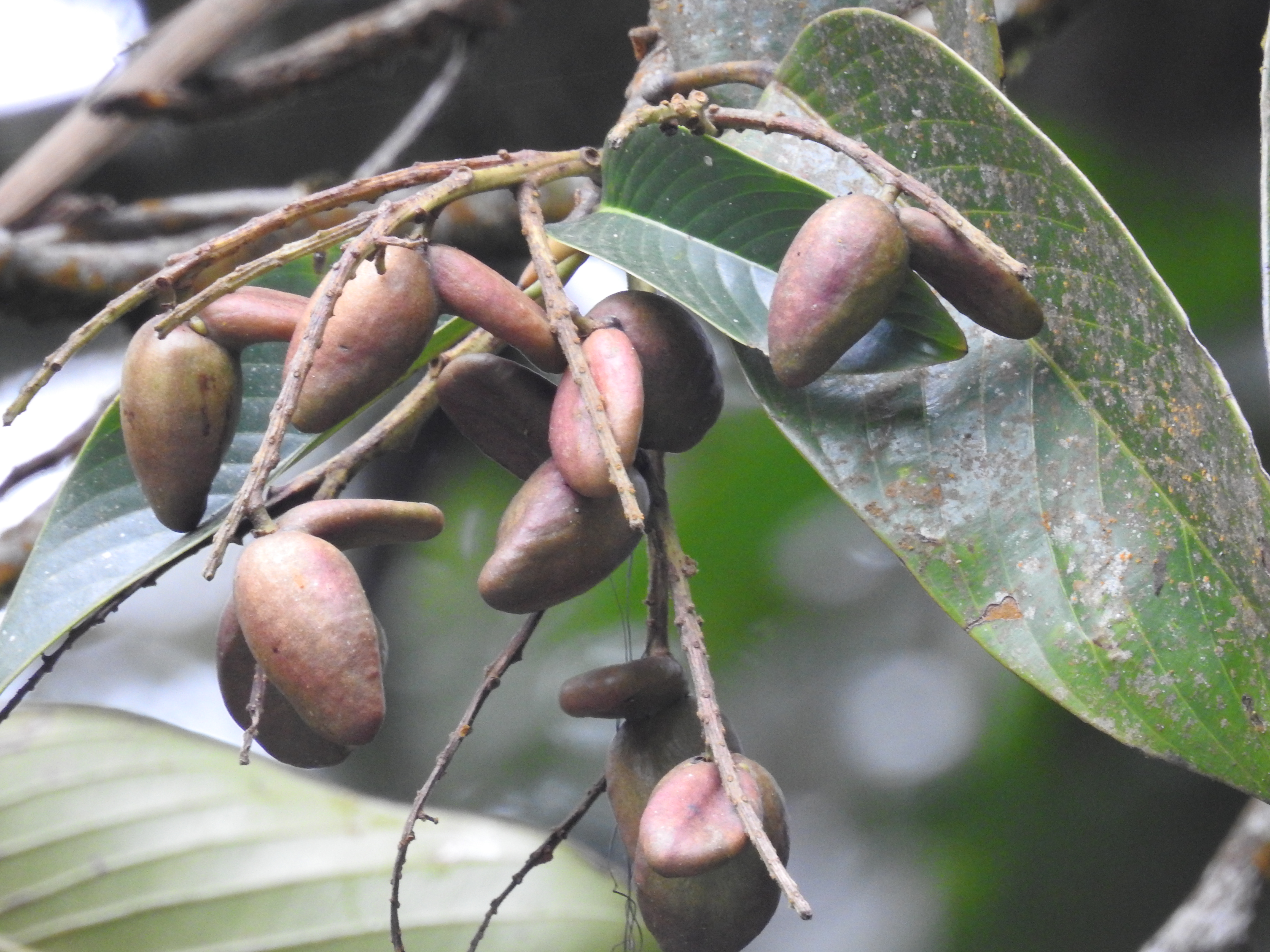 Bhesa indica fruiting branch in Anaimalai Hills, India